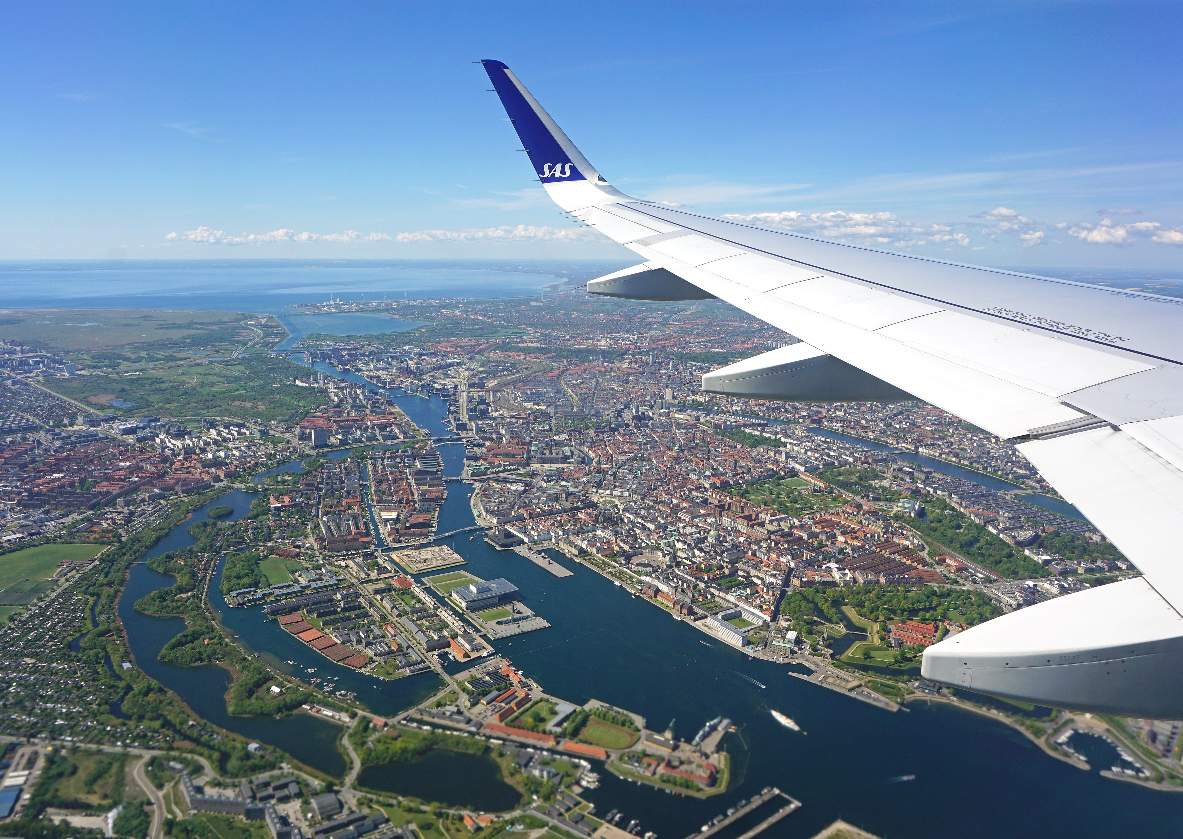 Copenhagen seen from SAS-airplane